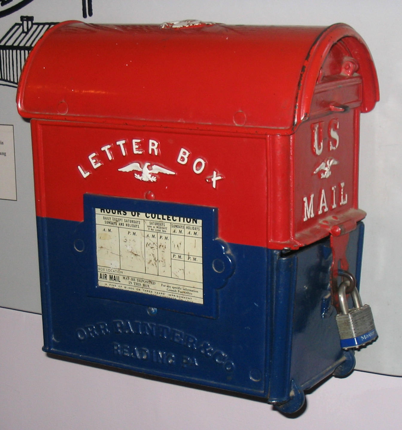 An antique letterbox, both on display and still in use in the Smithsonian Institution Building ("The Castle").